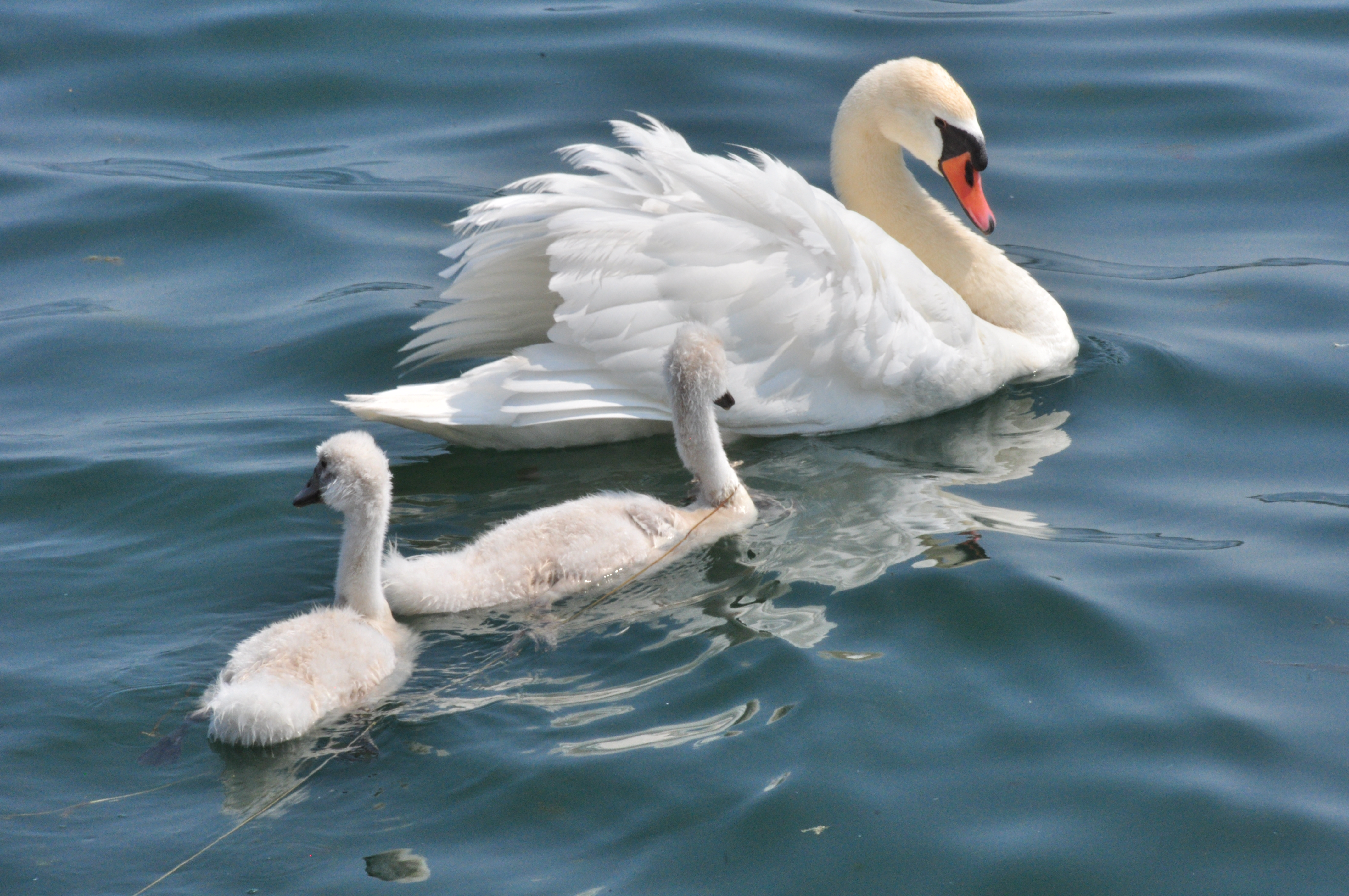 Female Mute Swan with two cygnets on the Ontario Lake in Toronto, Canada